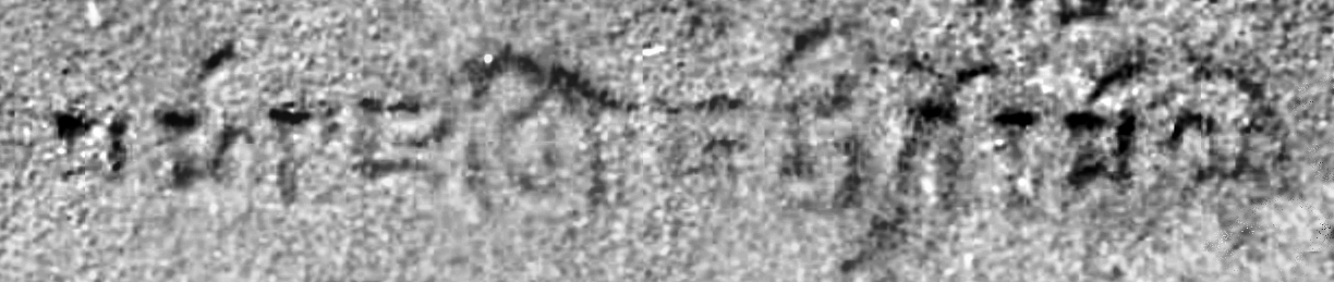 Maharajadhiraja Sri Toramana on Eran boar inscription